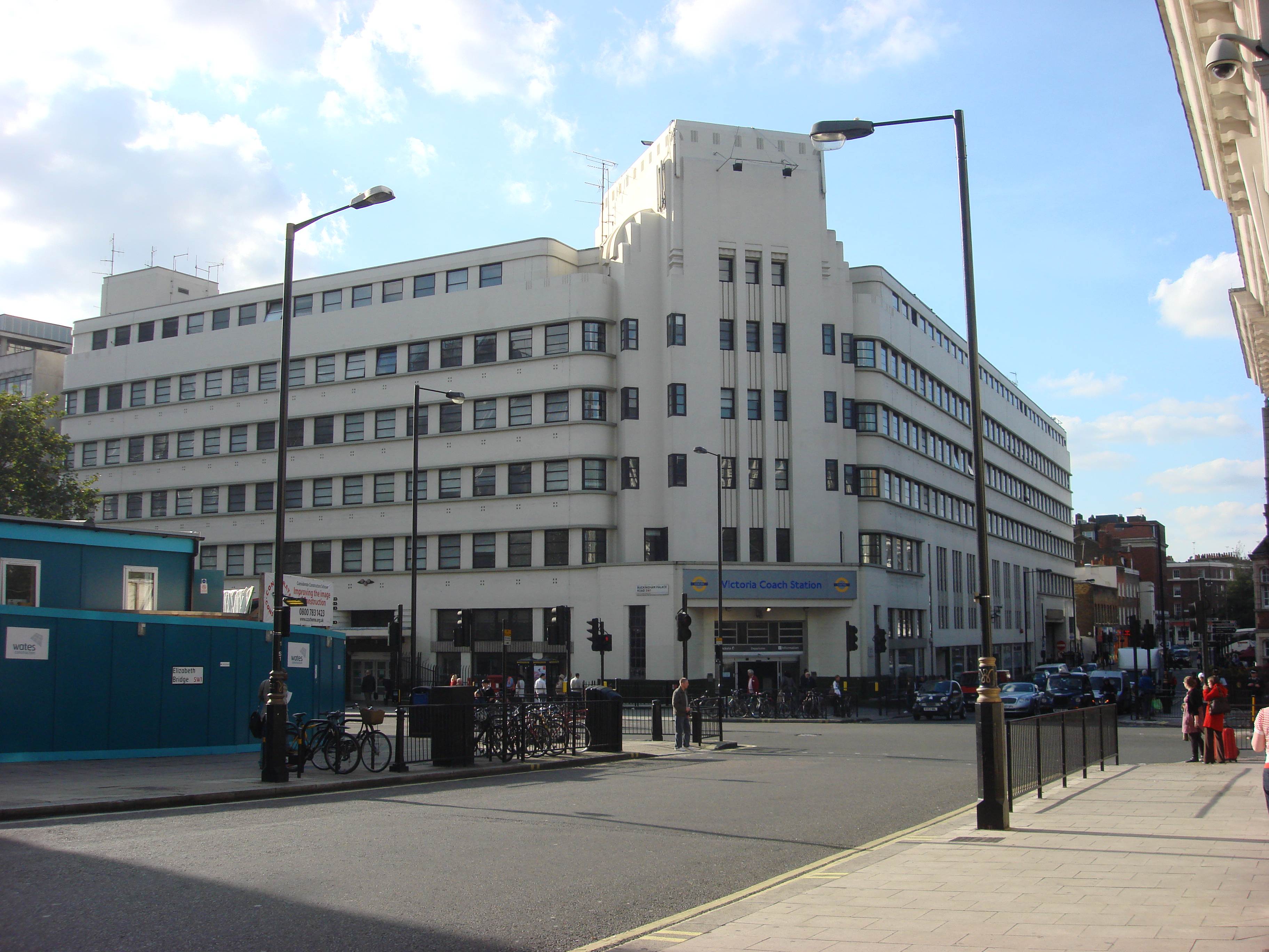 Victoria Coach Station